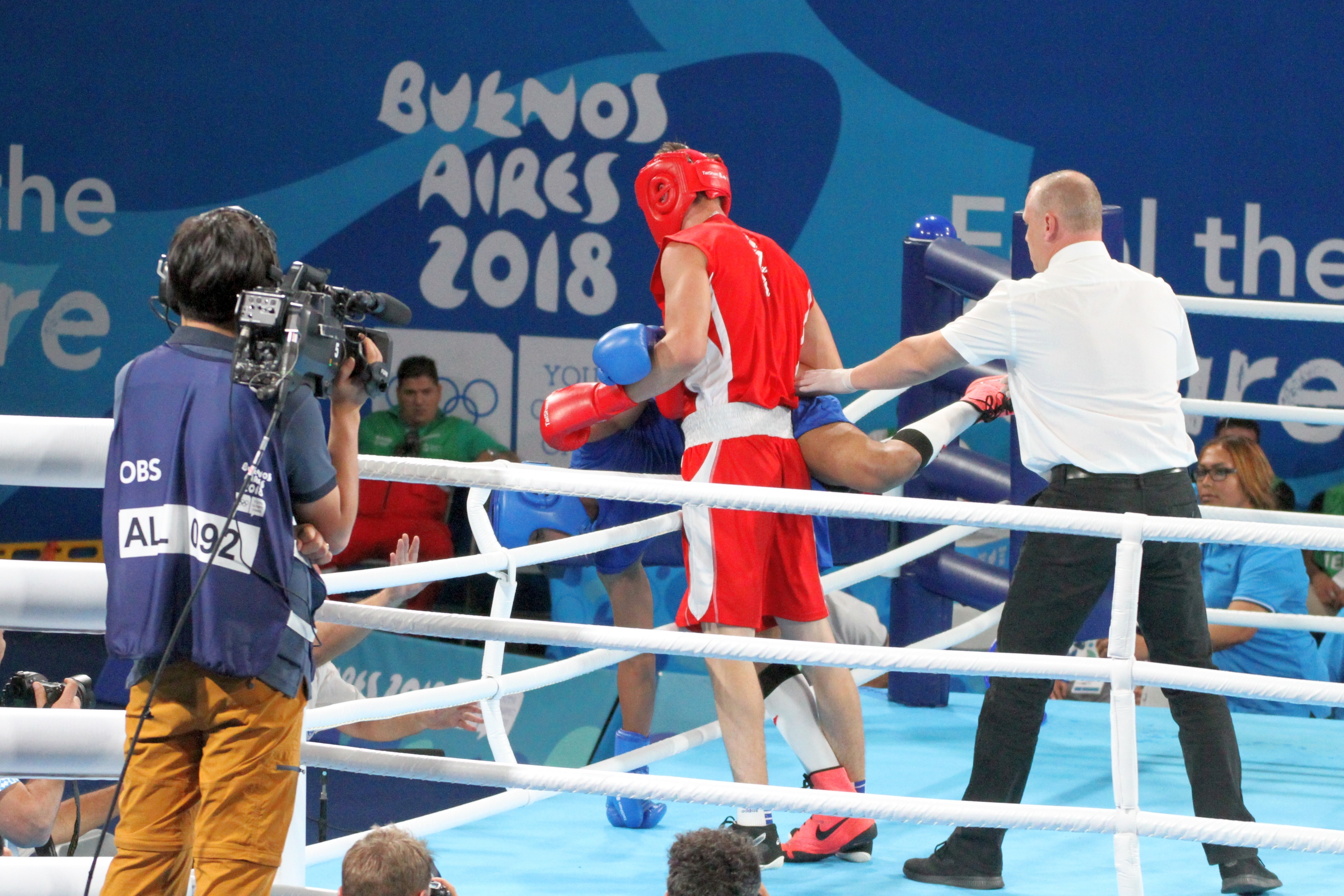 Boxing at the 2018 Summer Youth Olympics on 18 October 2018 – Boys' light heavyweight Bronze Medal Bout - Timur Merjanov (Uzbekistan, red) beats Youssef Ali Karar Ali (Egypt, blue) 5-0; Referee is Antonín Gaspar (Czech Republic).